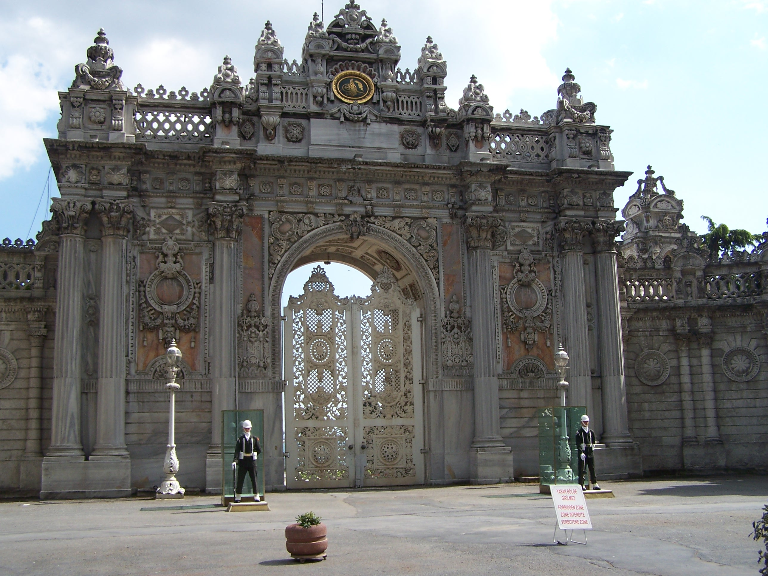 Dolmabache Istanbul